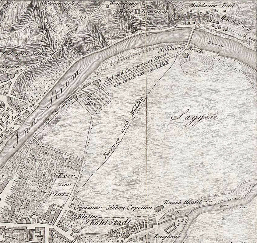 Map of Imperial and Royal Provincial Capital Innsbruck and surroundings: detail map – Saggen